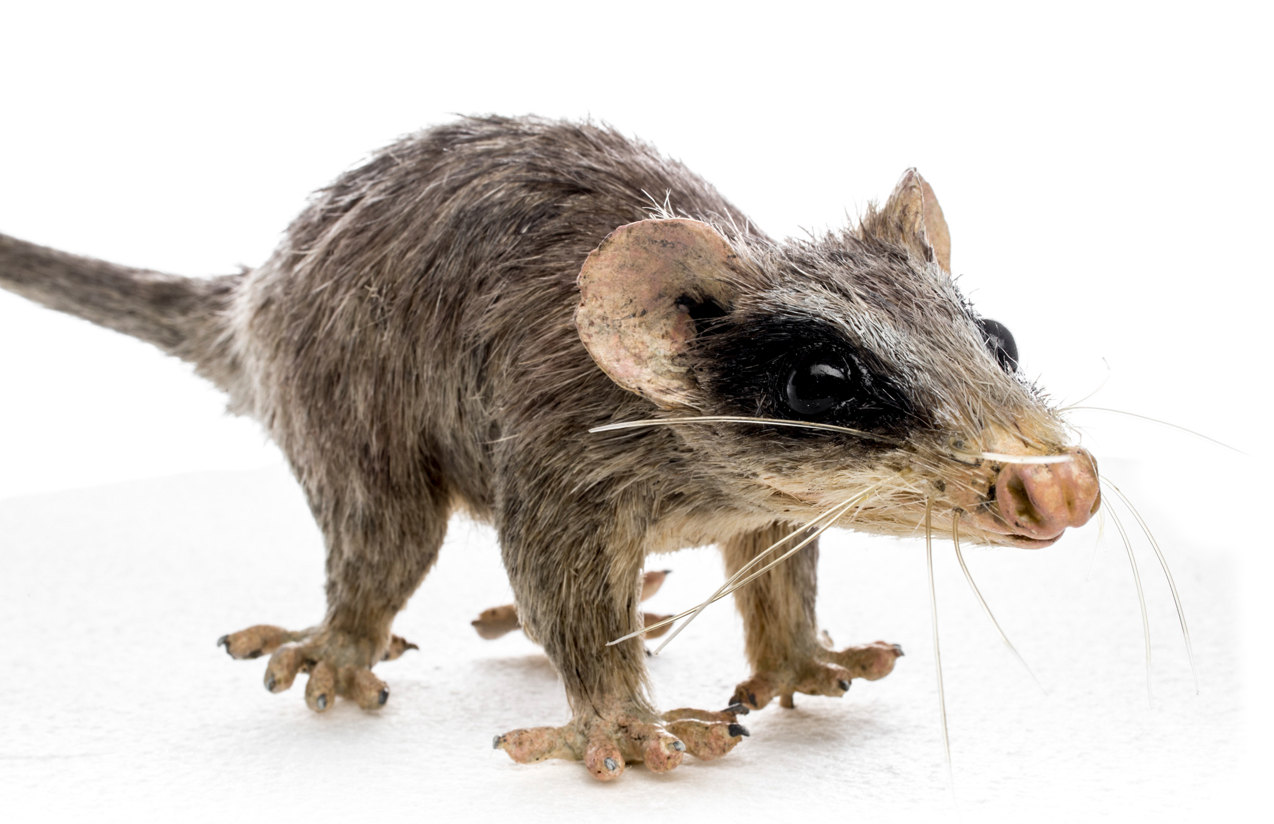 Cropped image of taxon in file name